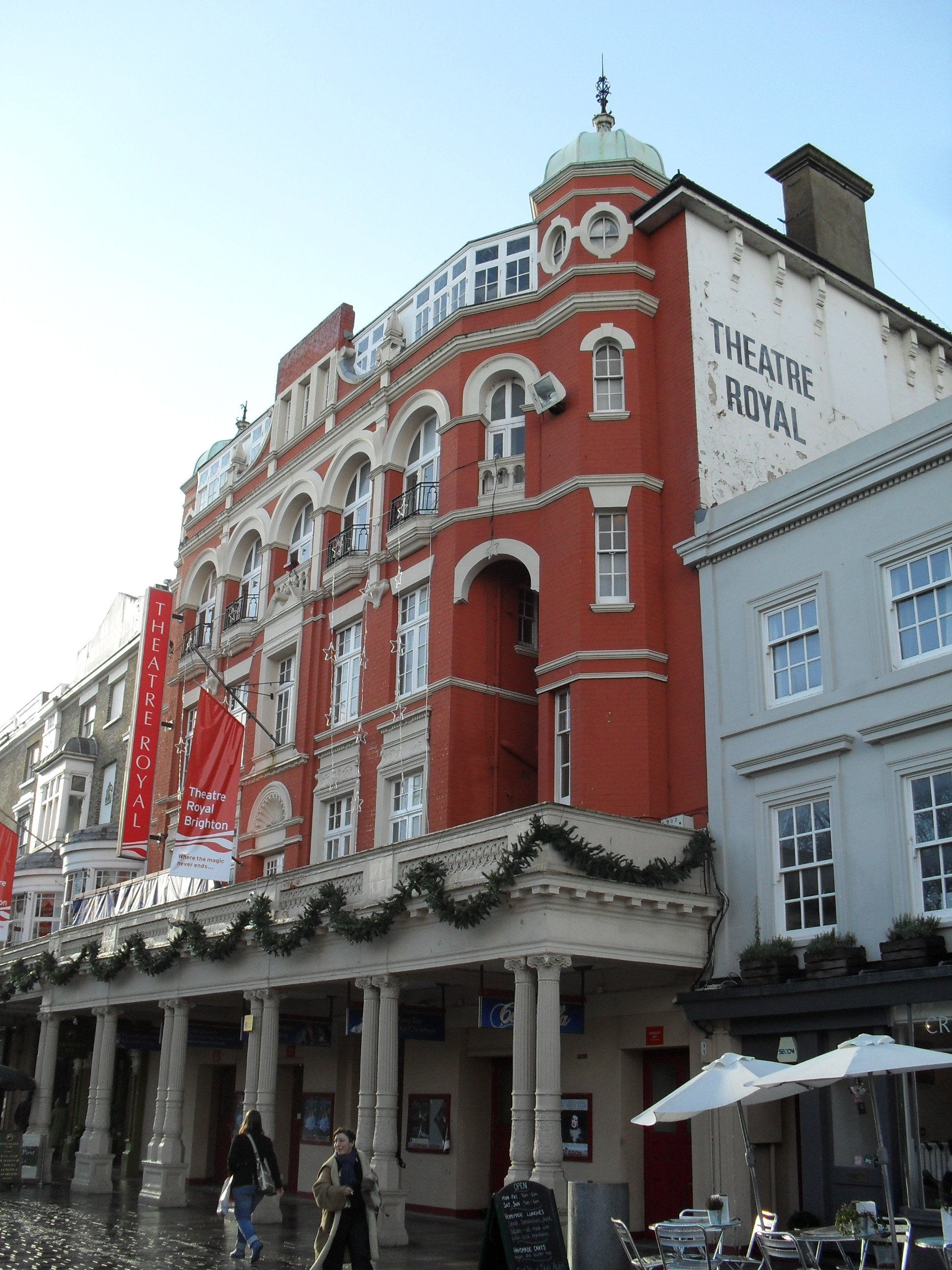 Theatre Royal, New Road, Brighton, City of Brighton and Hove, England. Founded in 1807; remodelled in 1866, then significantly altered by local architects Clayton & Black in 1894. More work was carried out in 1927. Listed at Grade II by English Heritage (NHLE Code 1380103)